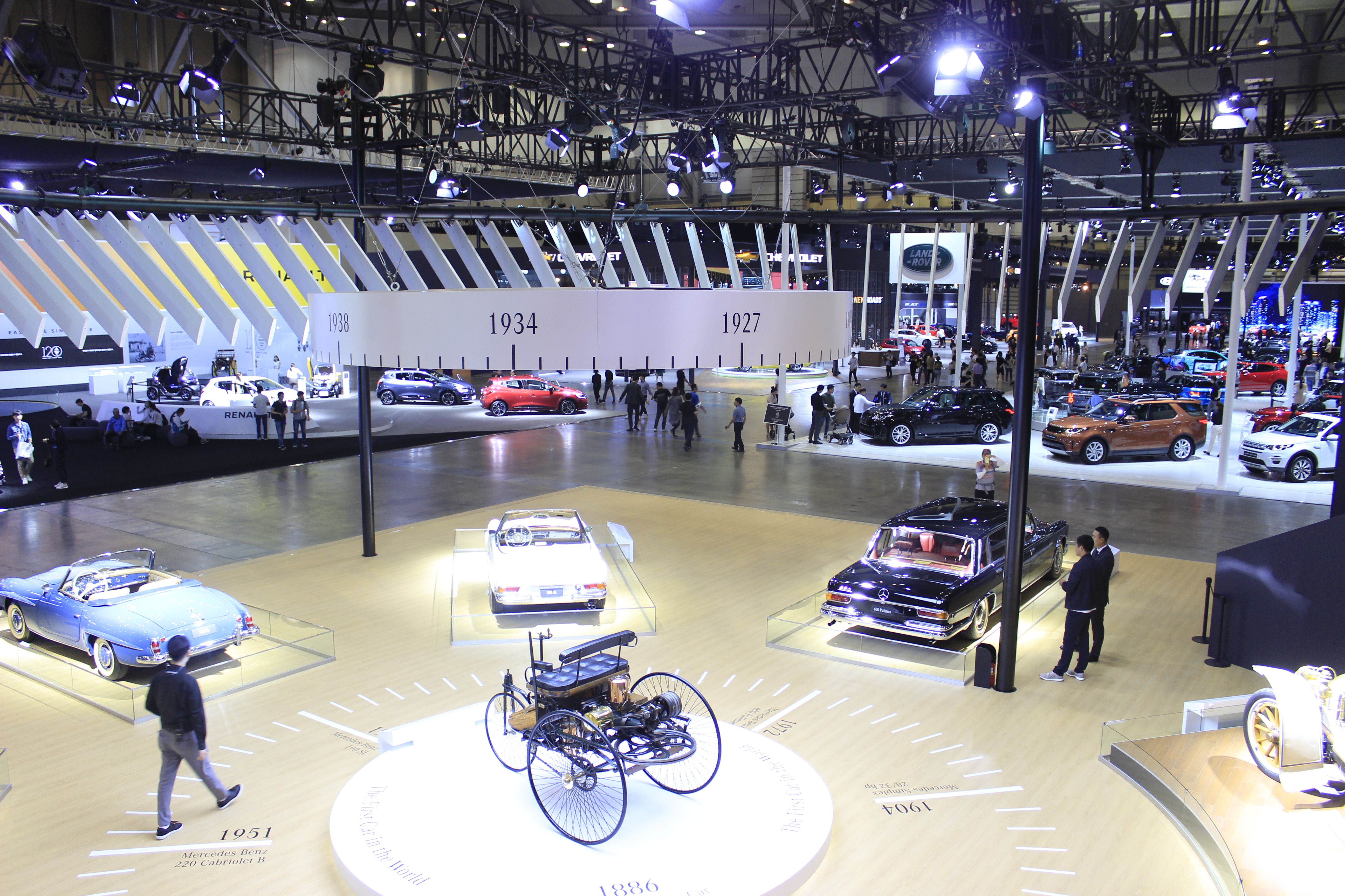 2018 Busan Motor Show